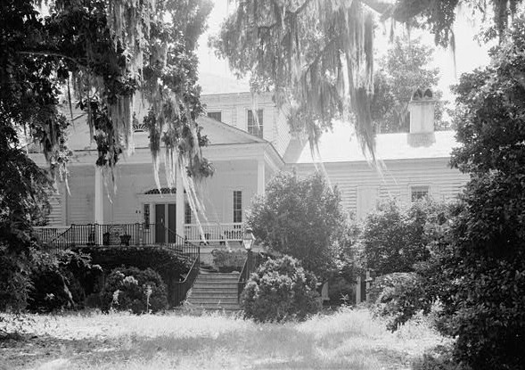 Harrietta Plantation, U.S. Routes 17 & 701, McClellanville vicinity (Charleston County, South Carolina) (cropped)